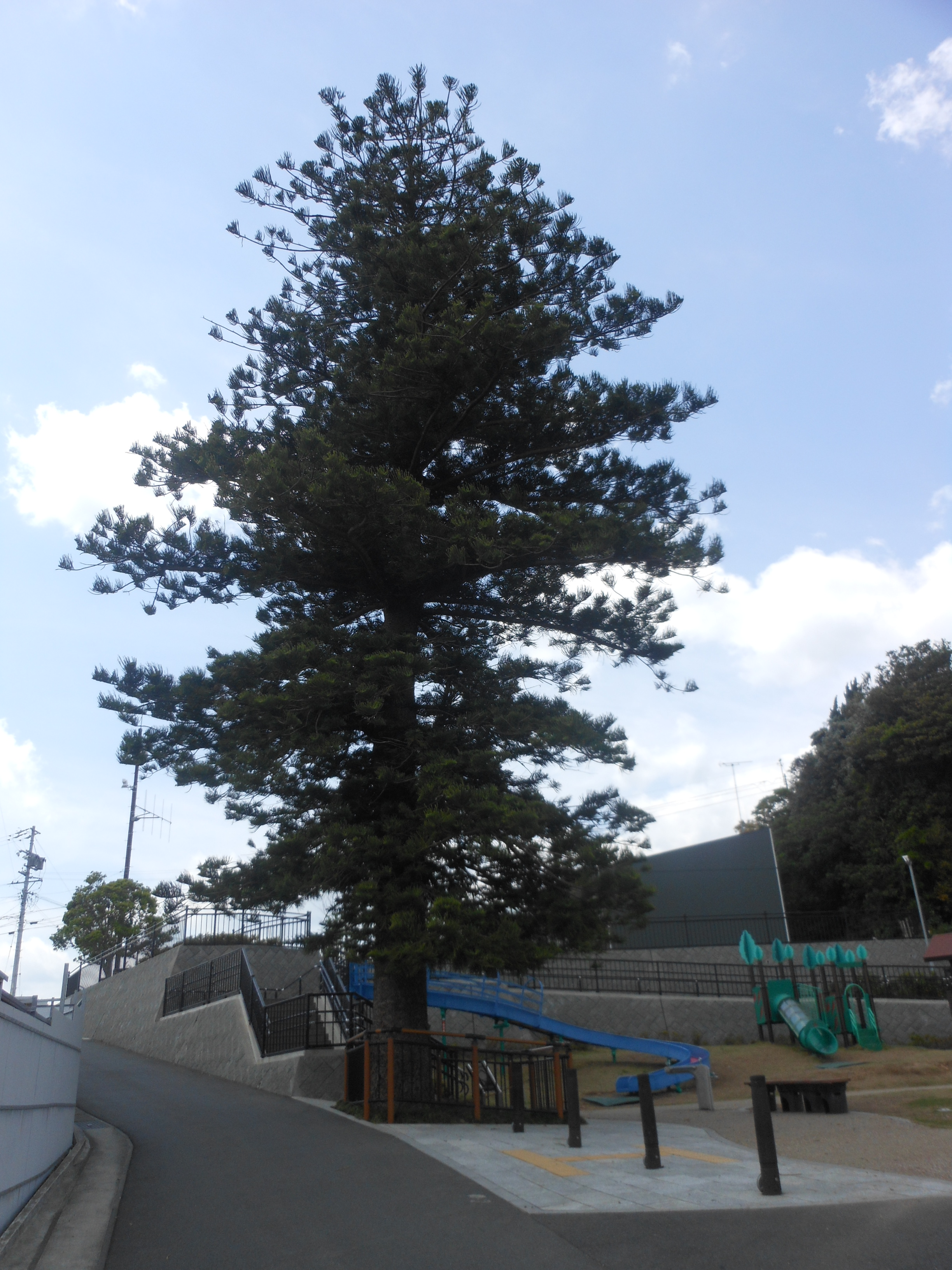 This is the Oriki's Pine Tree or Oriki-no-Matsu, which is located in Shimacho-Wagu, Shima, Mie, Japan. Oriki was a woman who try hard to help Japanese immigrant in America. This tree is Norfolk Island Pine.